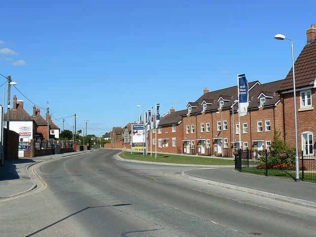 Station Road, Wootton Bassett. The entrance in the lower left corner leads to the town's fire station 1481519 The new housing on the right is part of a large development on an old dairy factory 1210189